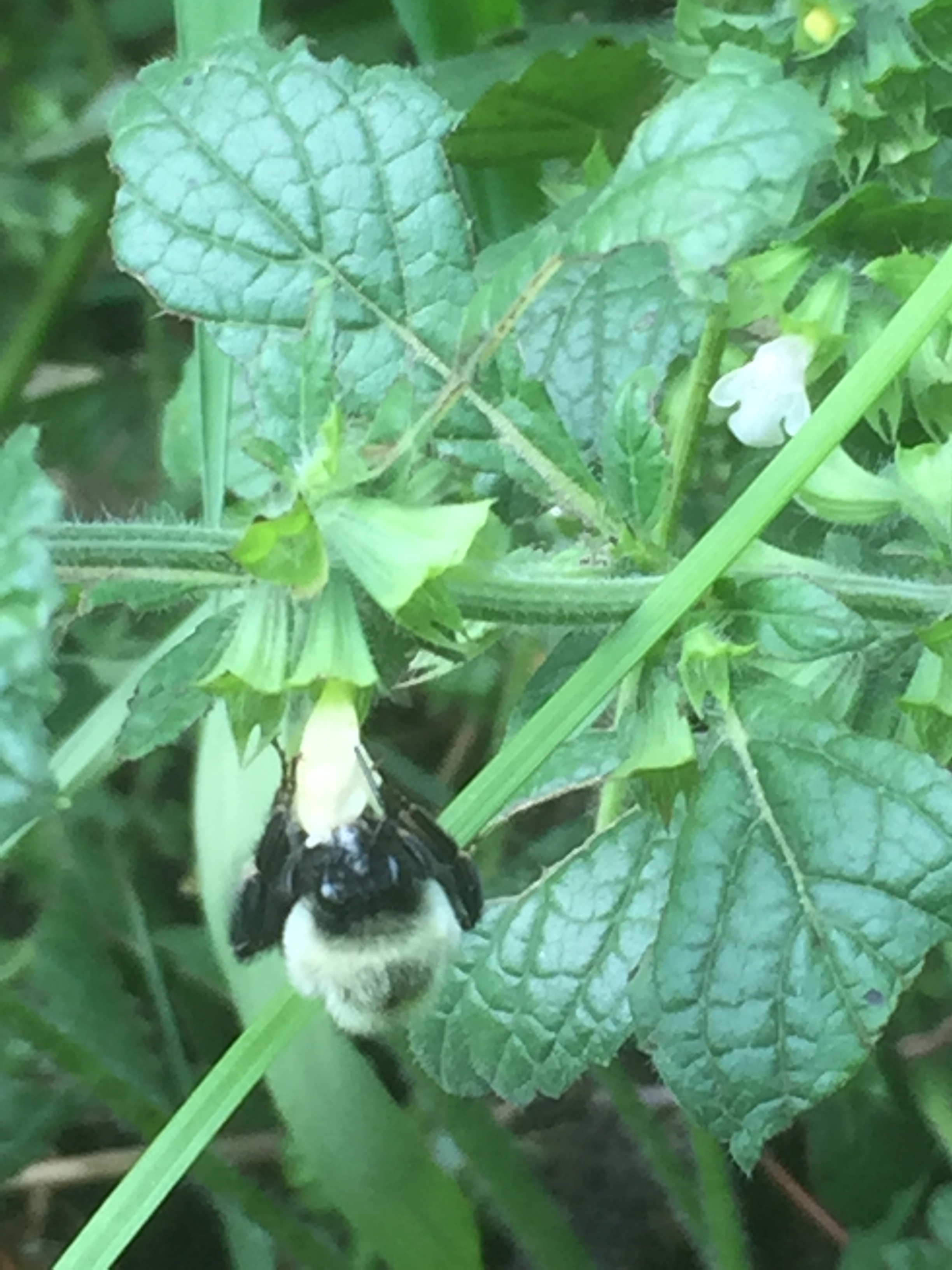 A closeup of a bumblebee drinking nectar from a lemon balm flower.